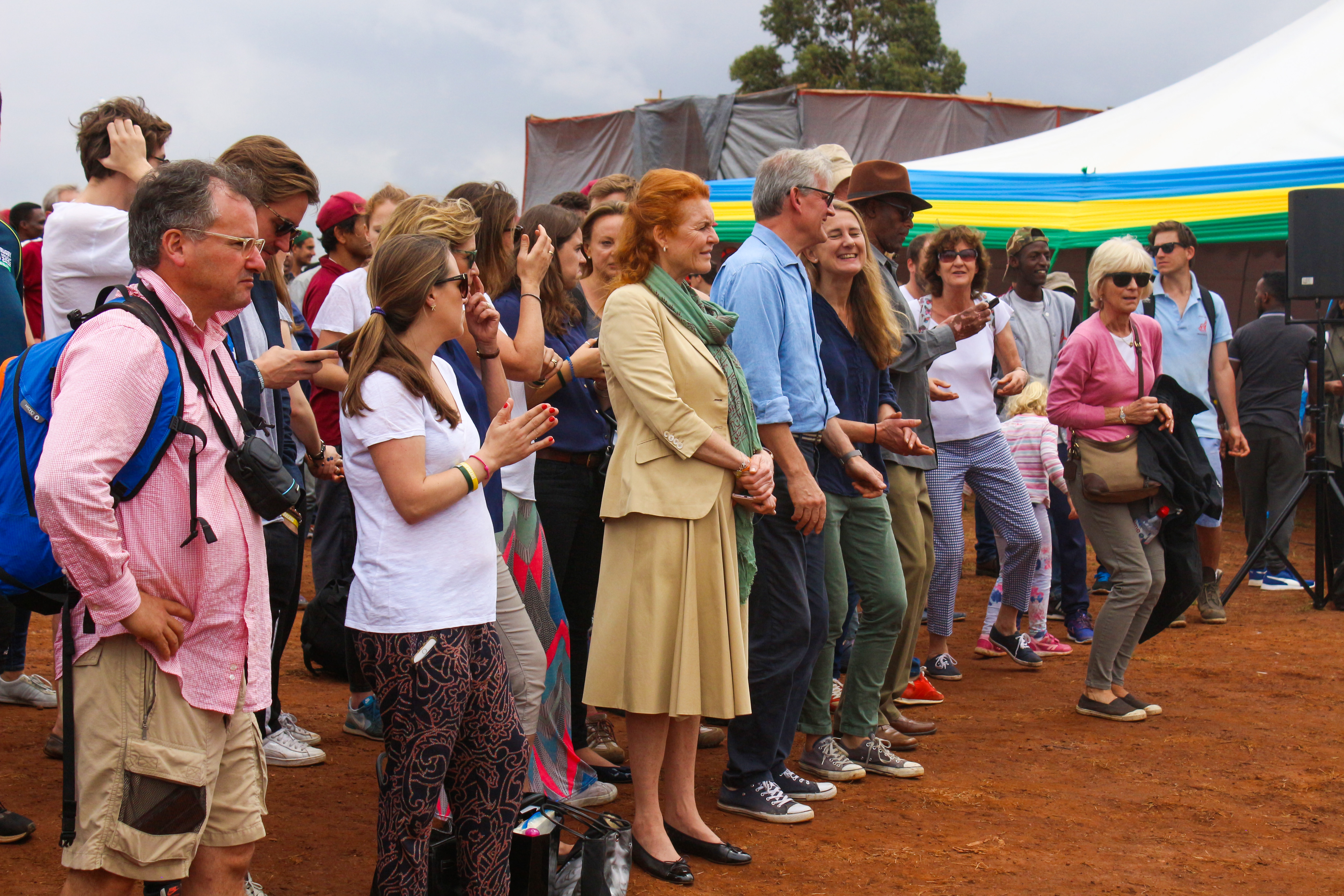 Sarah Ferguson, SAM Billings and Michael Vaughan in Rwanda during the launch of Gahanga Cricket Stadium